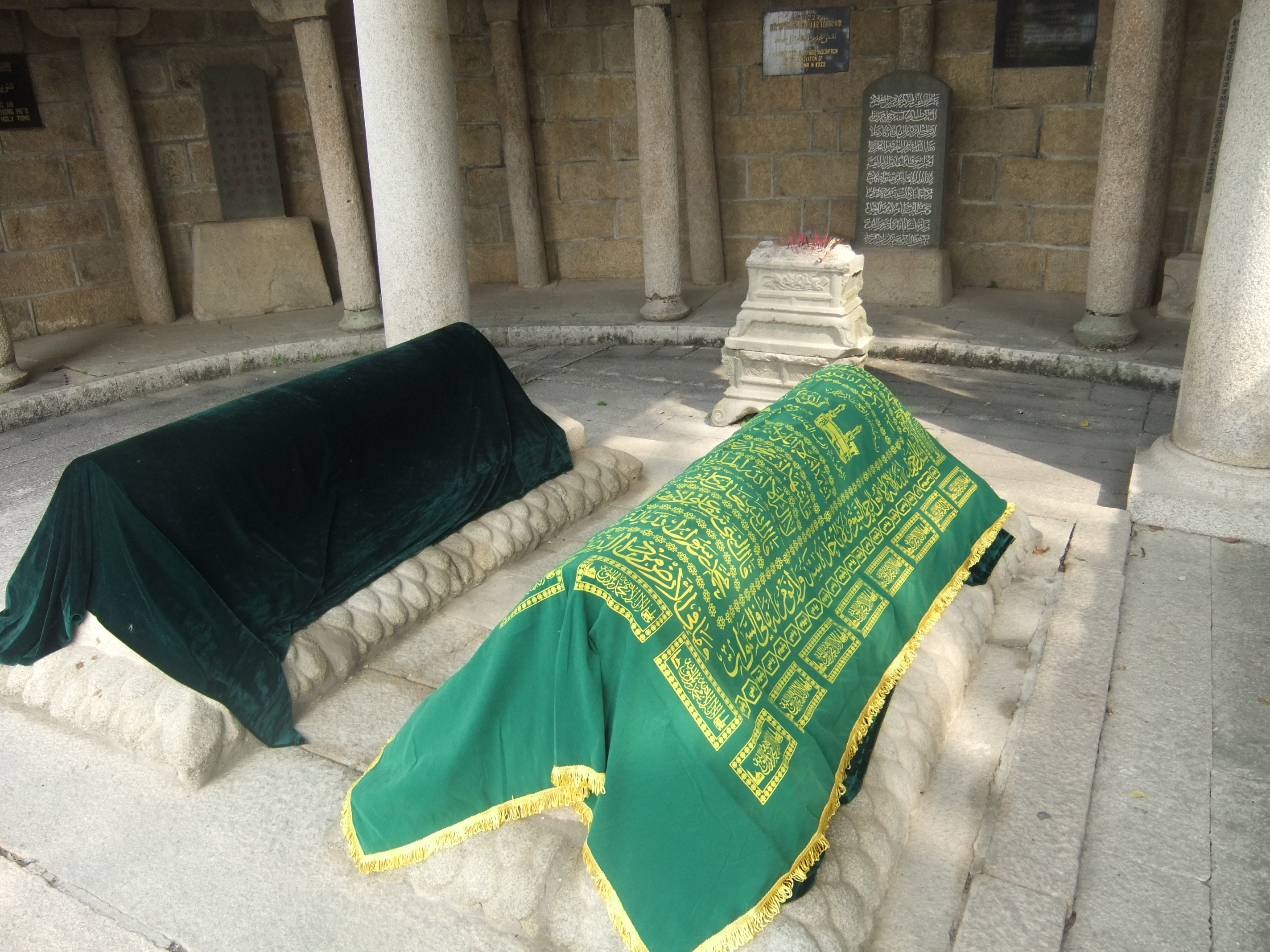 The tombs of the "Two Worthies", two early Islamic missionaries that supposedly came to Quanzhou to propagate Islam in the 7th century. They are the centerpiece of Lingshan Islamic Cemetery (Lingshan Park) in Quanzhou. There are a number of stelae next to them, erected at various times from the Yuan Dynasty to the present day.